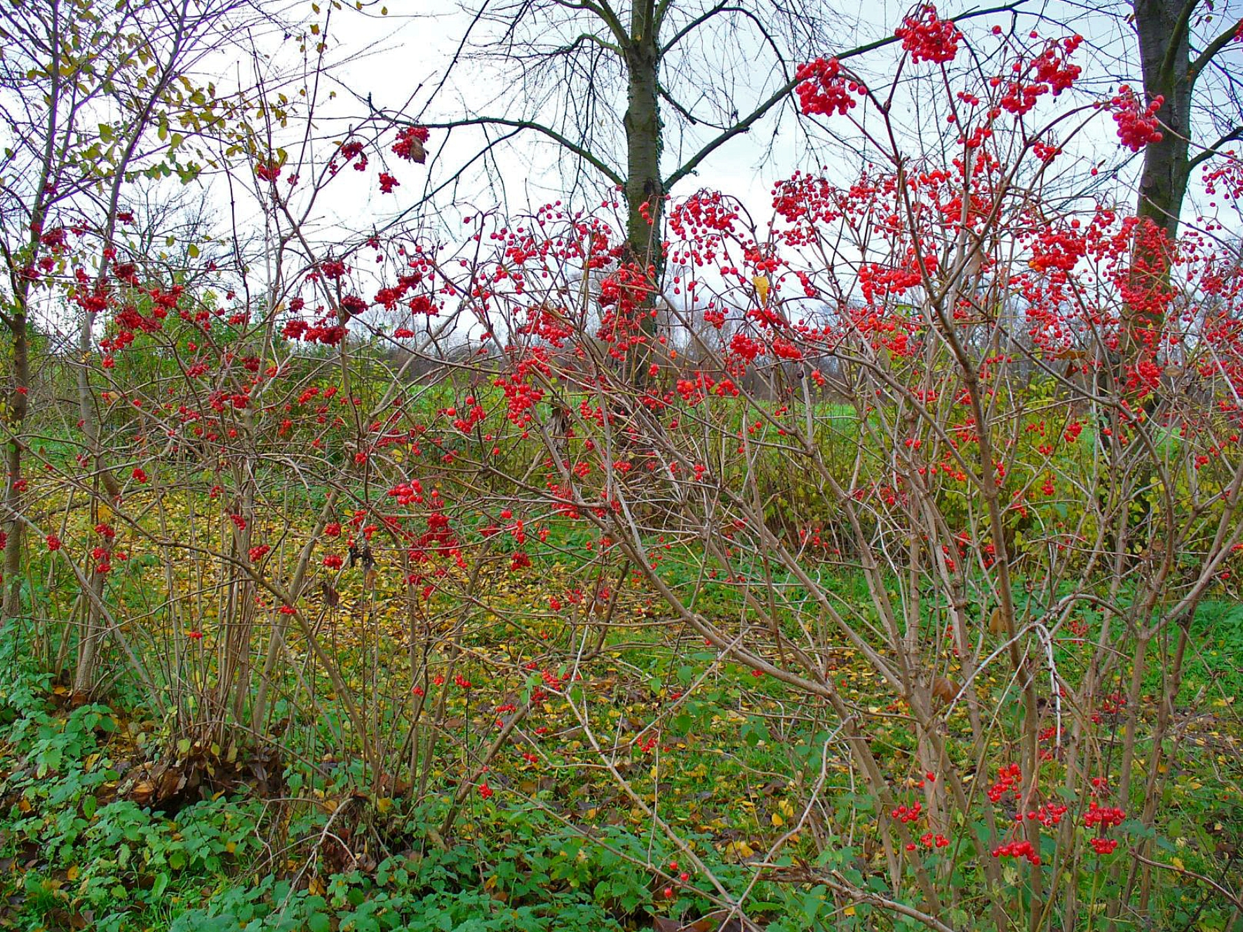 Viburnum opulus, Adoxaceae, Guelder Rose, Water Elder, European Cranberrybush, Cramp Bark, Snowball Tree, fruits.